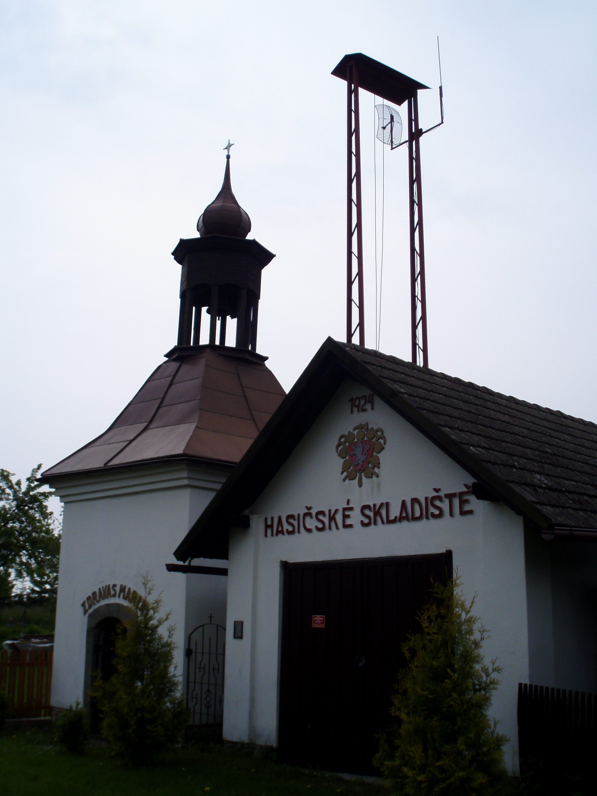 Chapel in Křižanov (District of Náchod)